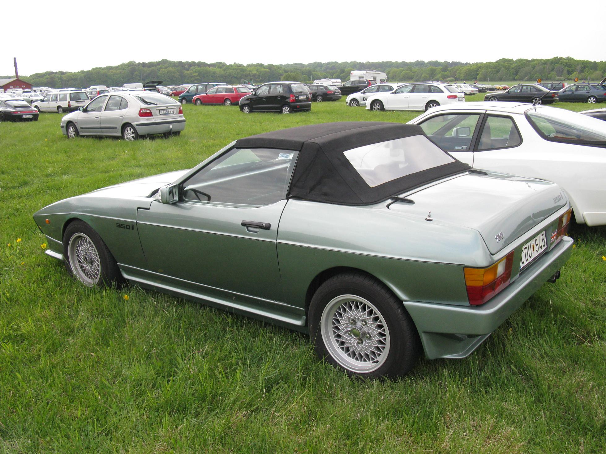 1989 TVR 350i, registered in Sweden since 2009. 195hp (145kW) 3.5 litre V8, chassis number SA9DH35P3KB019407.